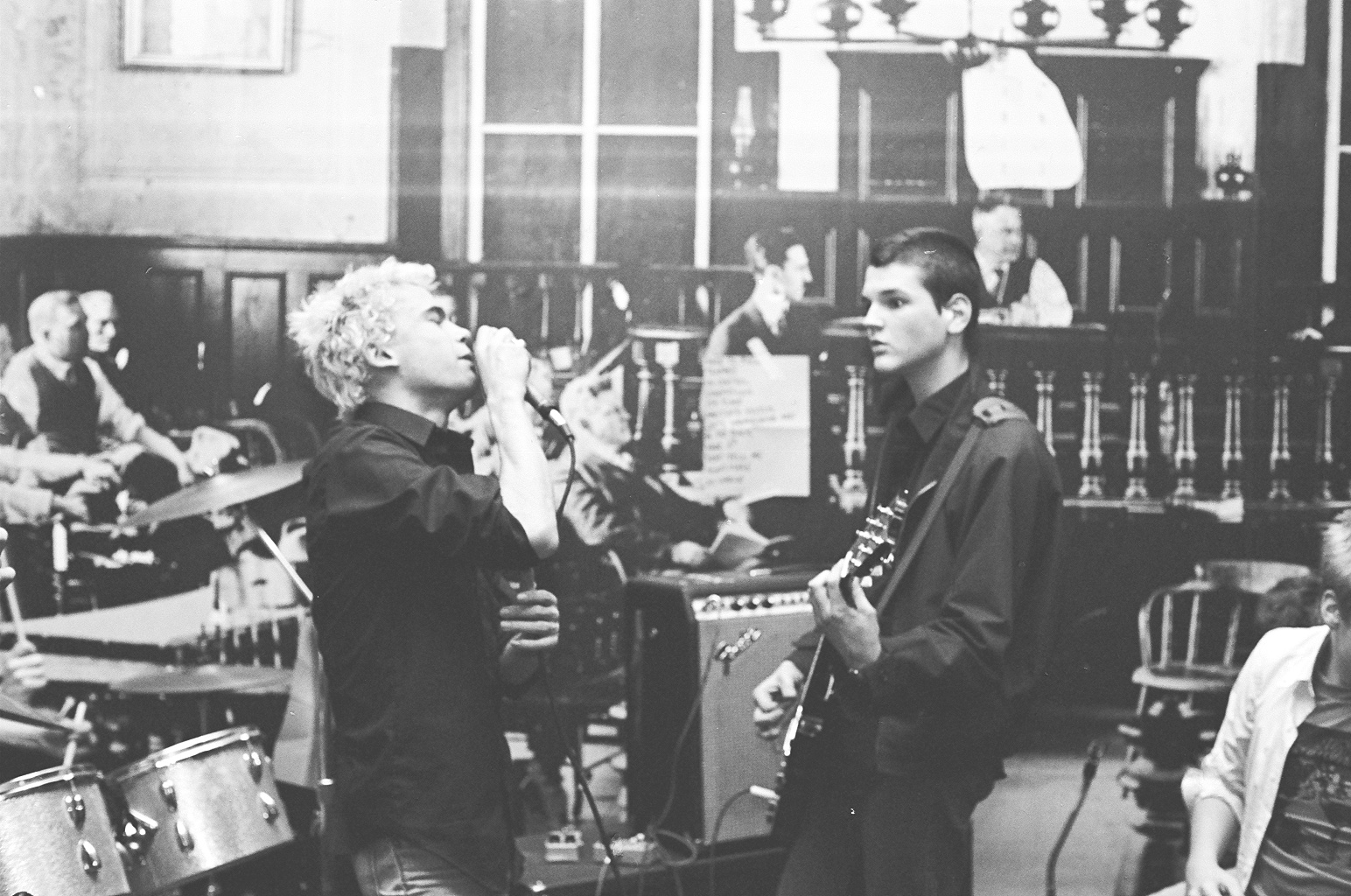 Punk rock group "The Faith" performing at Washington, DC's The Chancery nightclub, 1980s.